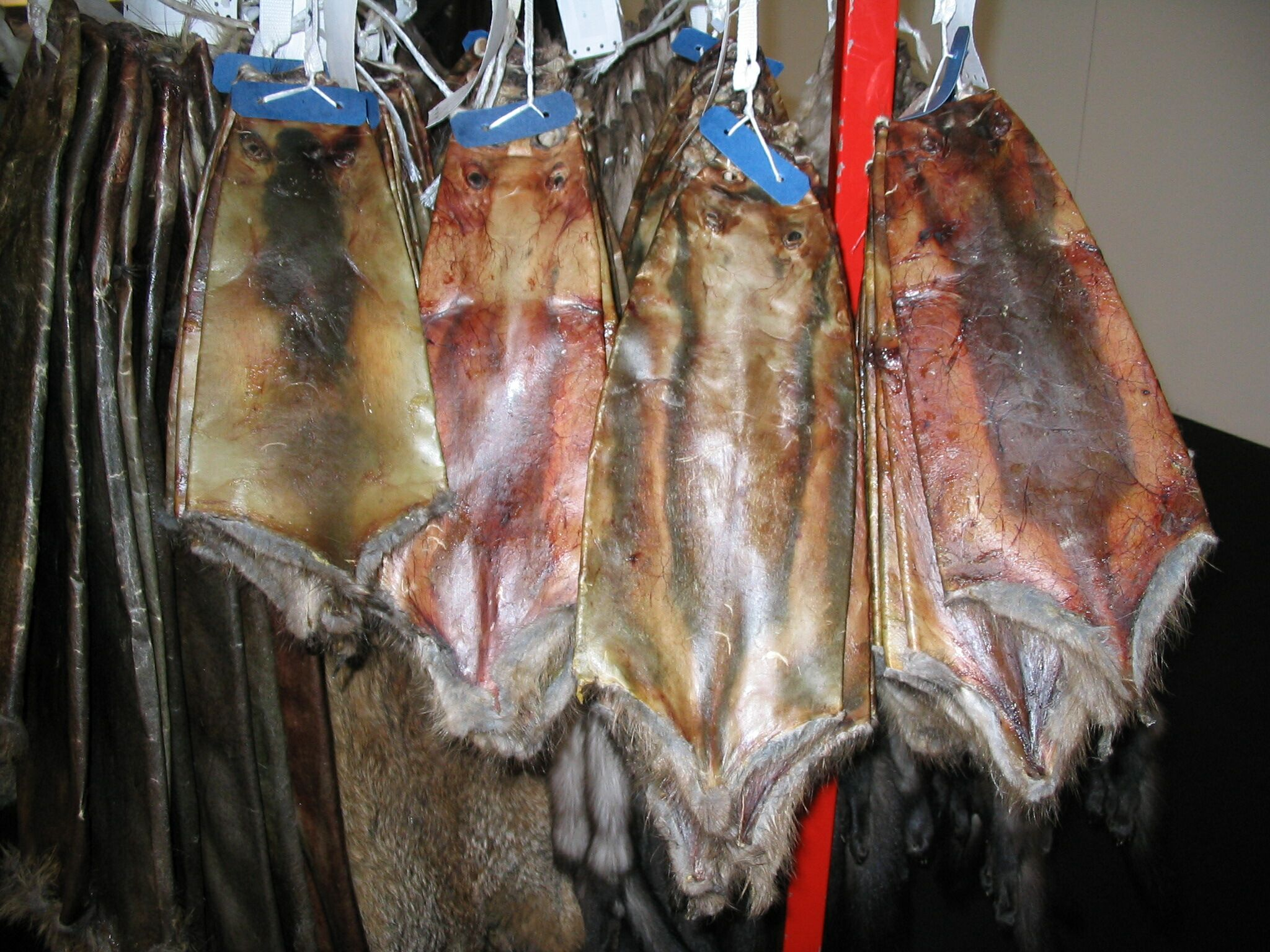 Muskrat untanned fur-skins (Europe)